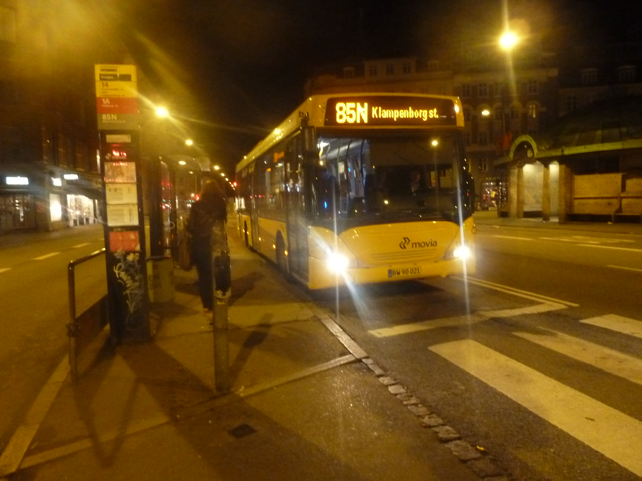 Night bus line 85N on Trianglen in Copenhagen.